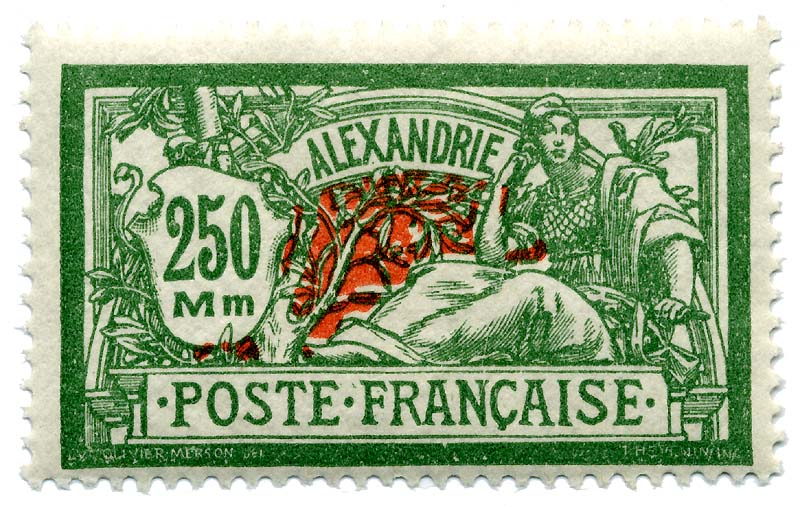 Scan of French post offices in Egypt (Alexandria) 250m stamp of 1927